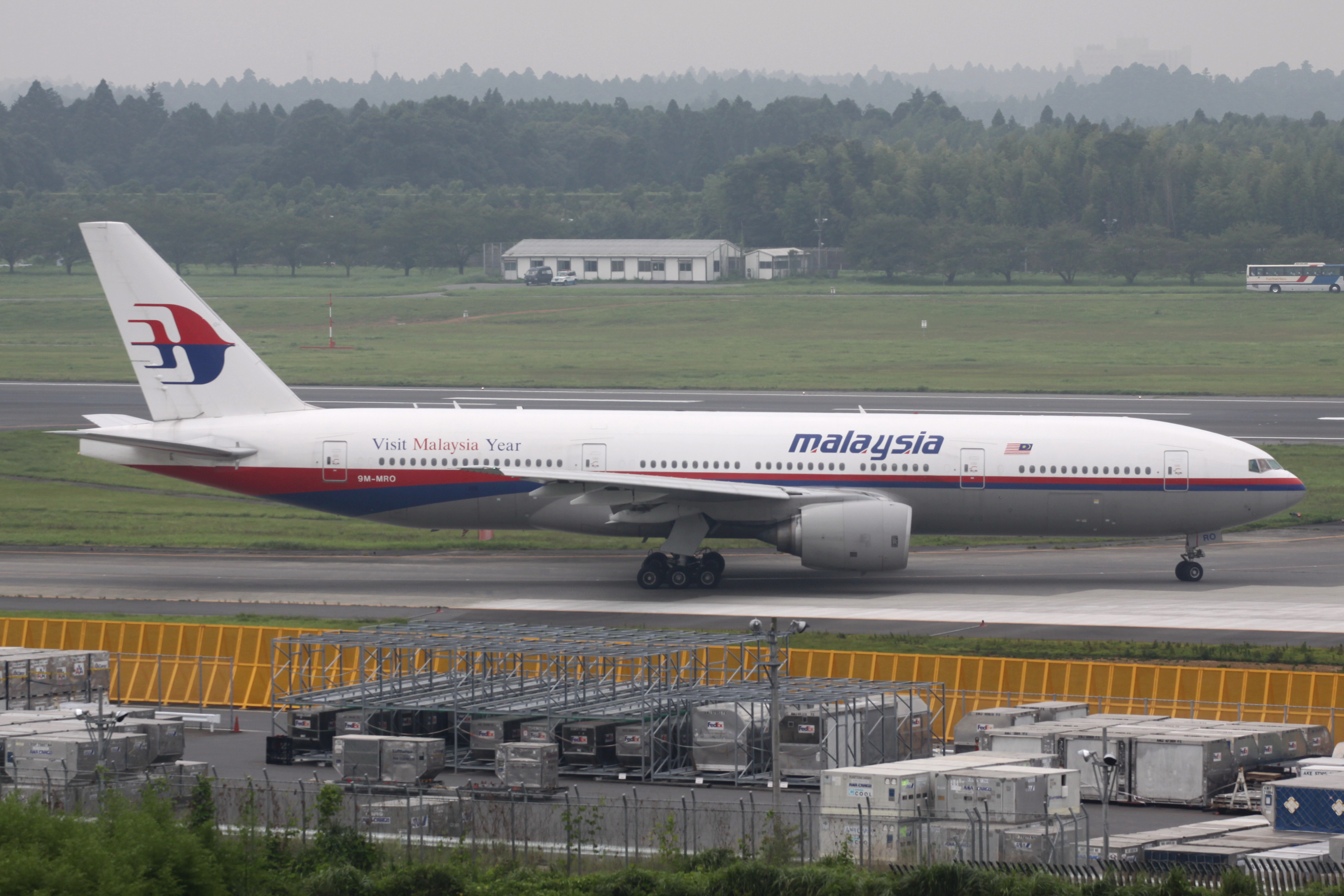 A Boeing 777-2H6ER aircraft (9M-MRO) of Malaysia Airlines holding short of runway 16R at Narita International Airport in Tokyo on 2 August 2009.